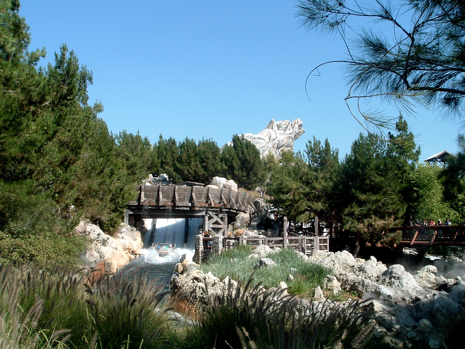 The End of The Grizzly River Run Attraction